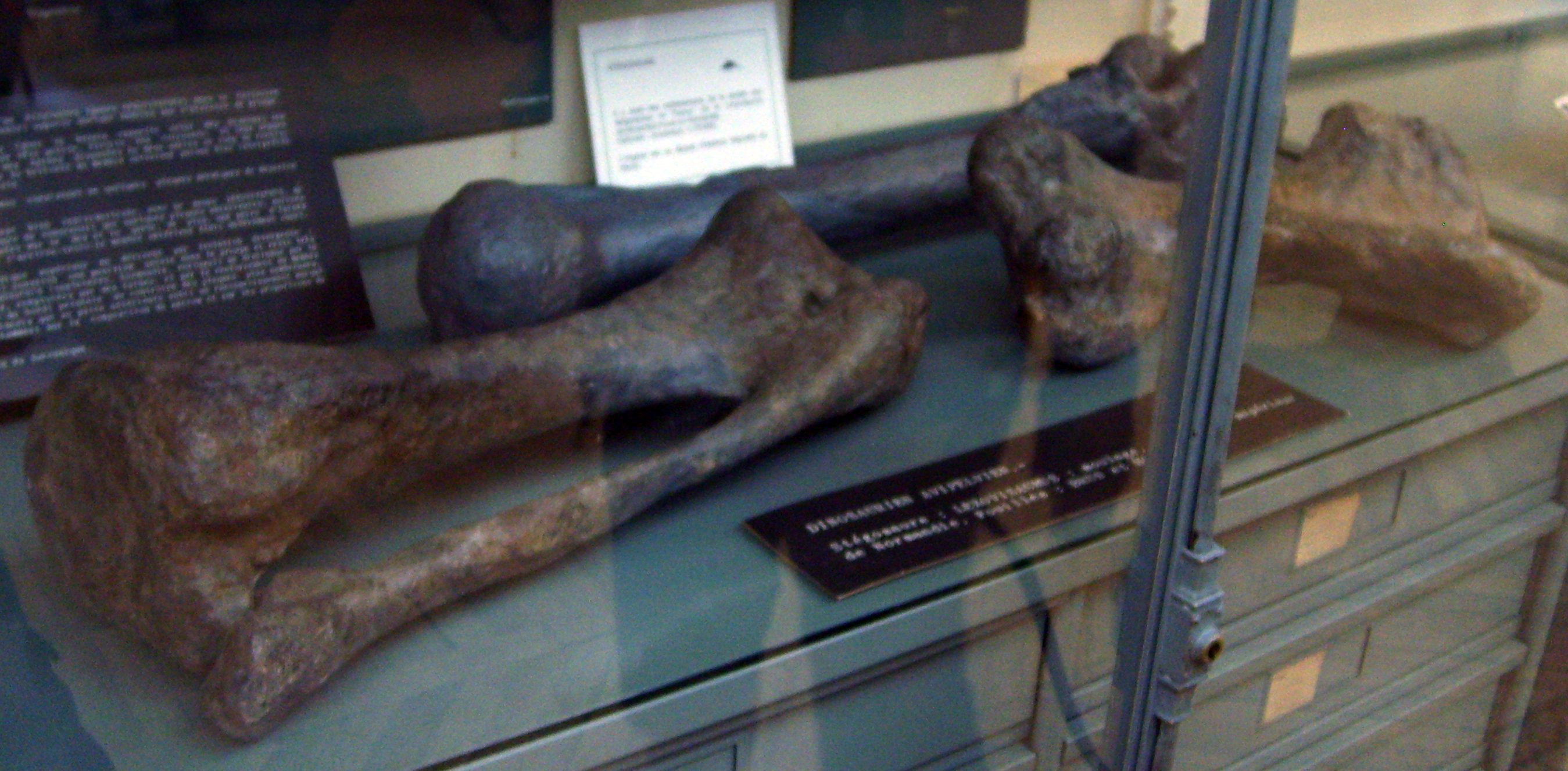 Lexovisaurus limb bones, Muséum national d'histoire naturelle, Paris.